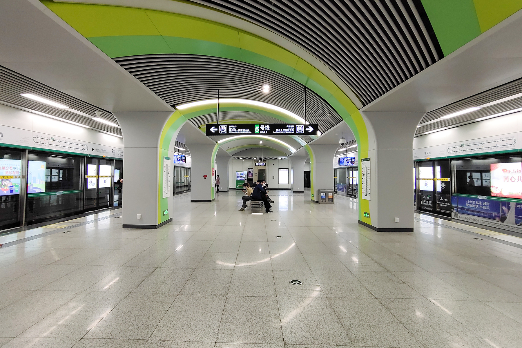 Platform for Line 5 at Zhengzhou Metro Huanghelu Station